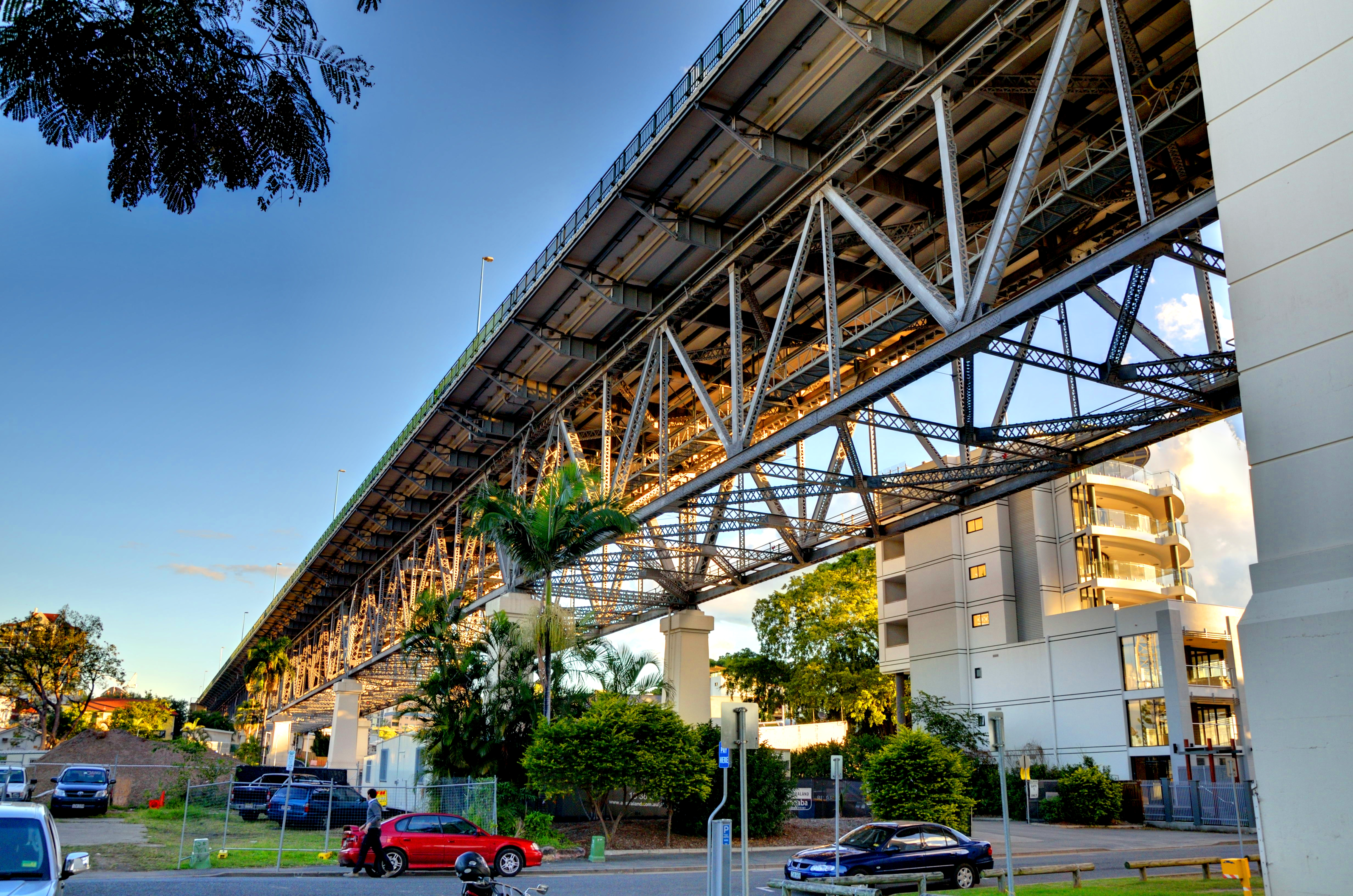 The side of the raised highway leading to the Story Bridge, on the south side in Kangaroo Point.